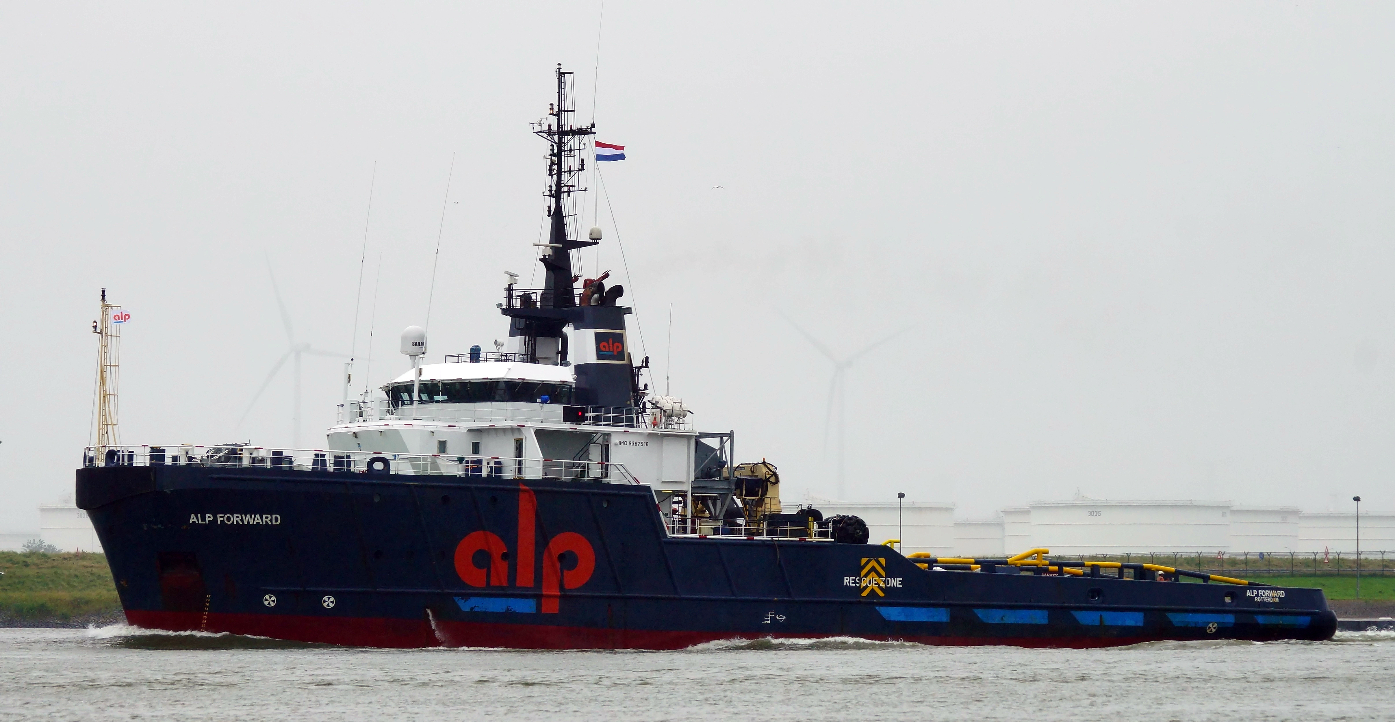 Offshore support vessel ALP Forward, Nieuwe Waterweg, Rotterdam